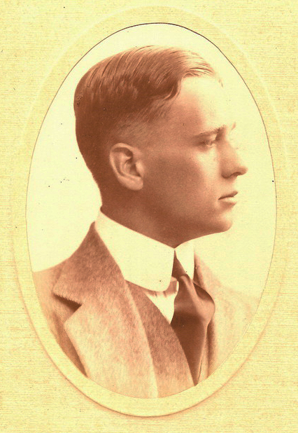 Bertil Malmberg (1889-1958), Swedish poet and author, as student.